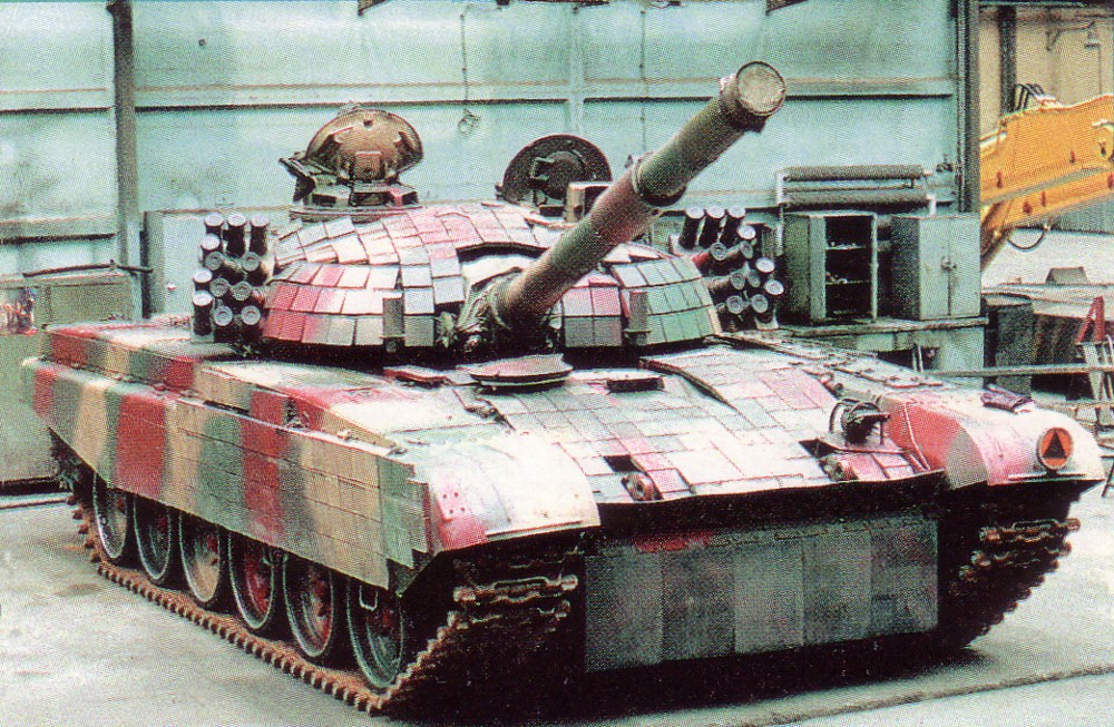 PT-91 Twardy tank